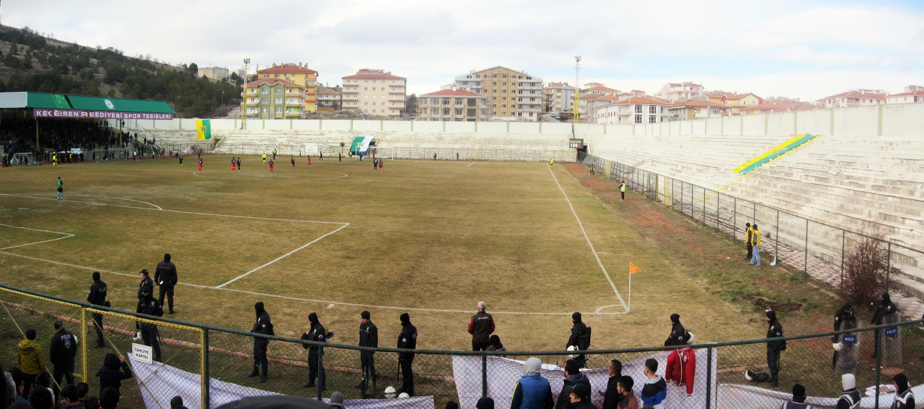 The Bağlum Stadium in AnkaraTürkçe: Bağlum Belediye Stadyumu panorama